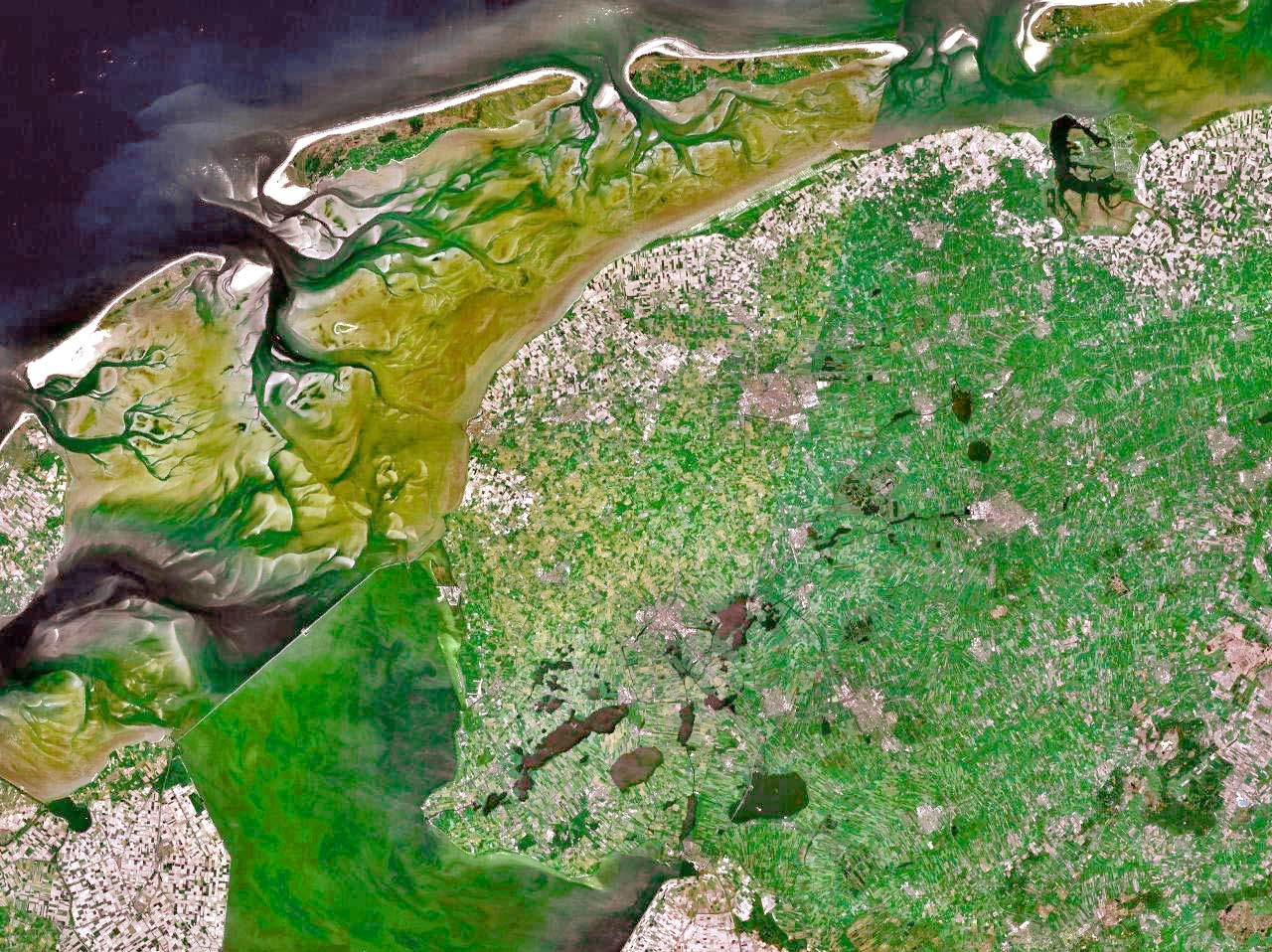 Friesland, The Netherlands. Satellite picture.